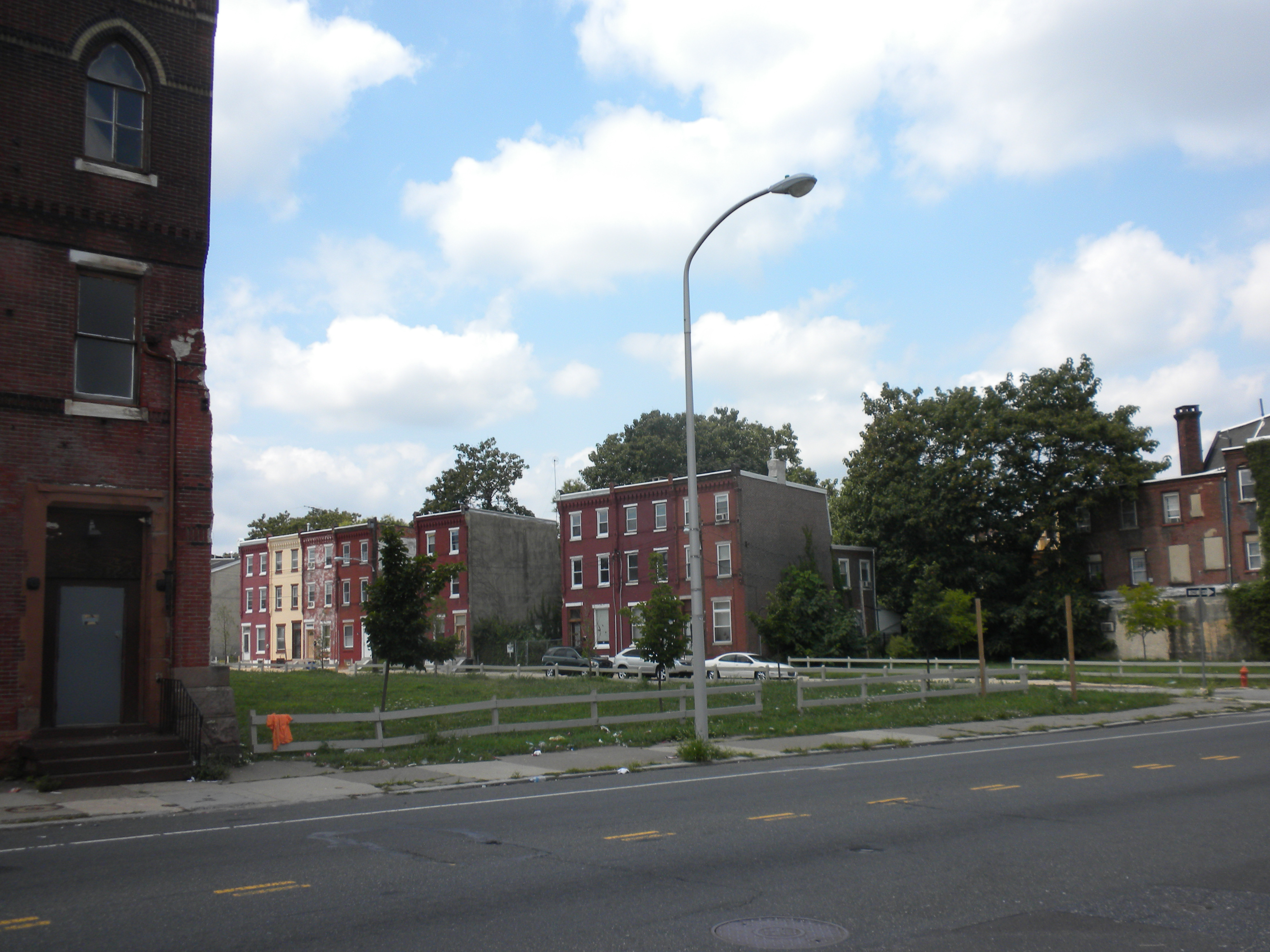 site of Ridge Avenue Farmers' Market on NRHP since March 5, 1984, at 1810 Ridge Ave., Philadelphia, in the Francisville neighborhood of North Philly. It's obviously been torn down - 1810 is the grassy area with the low fence. Ridge Ave is the street in front.